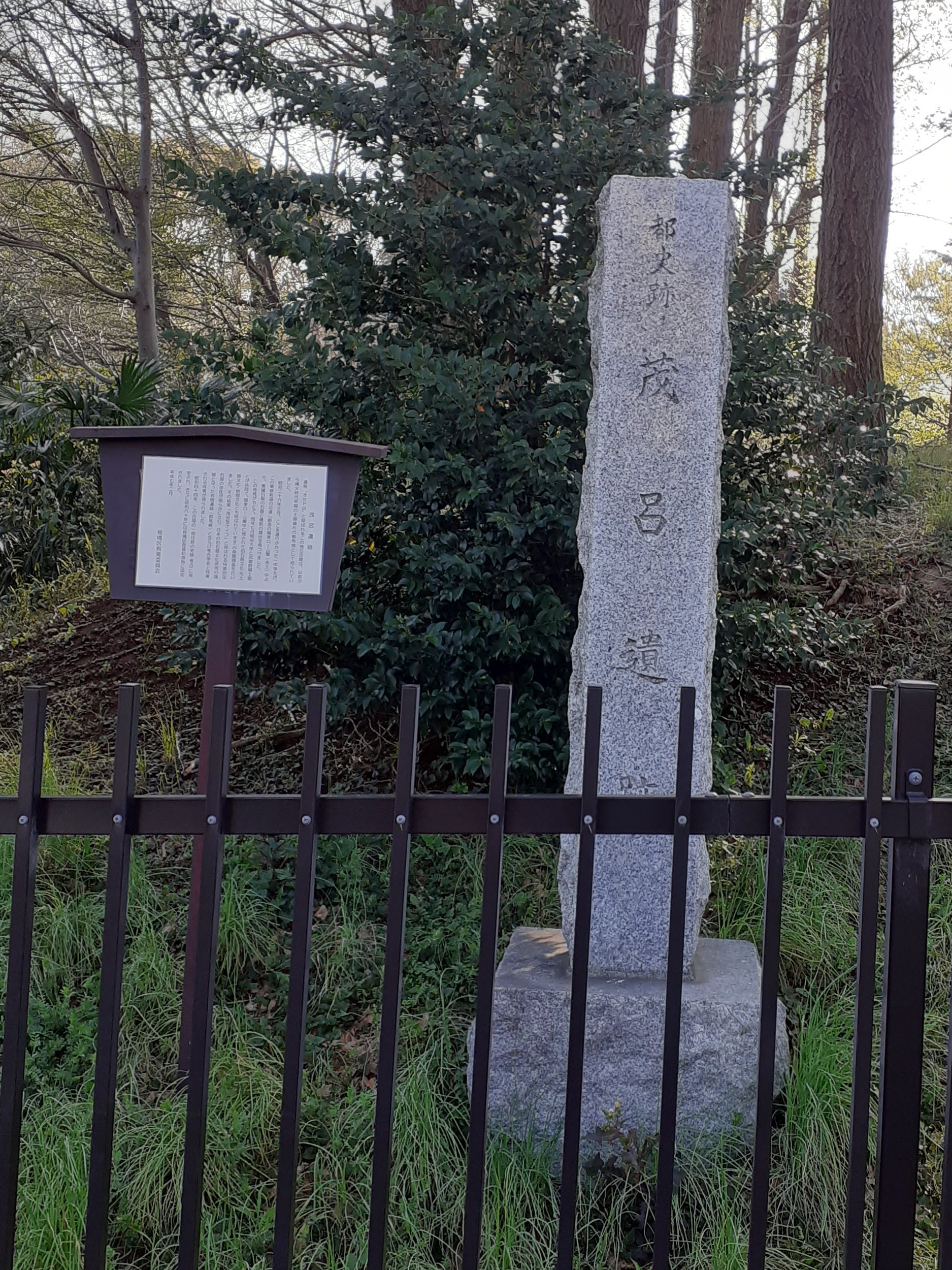 Stone marker of Moro Heritage Site in Itabashi-ku, Tokyo, Japan. The inscription on the stone says "都史跡" which is an abbreviation of "東京都指定史跡" and means "cultural (historical) property of Tokyo." The next line says "茂呂遺跡" which means "Moro Heritage Site".